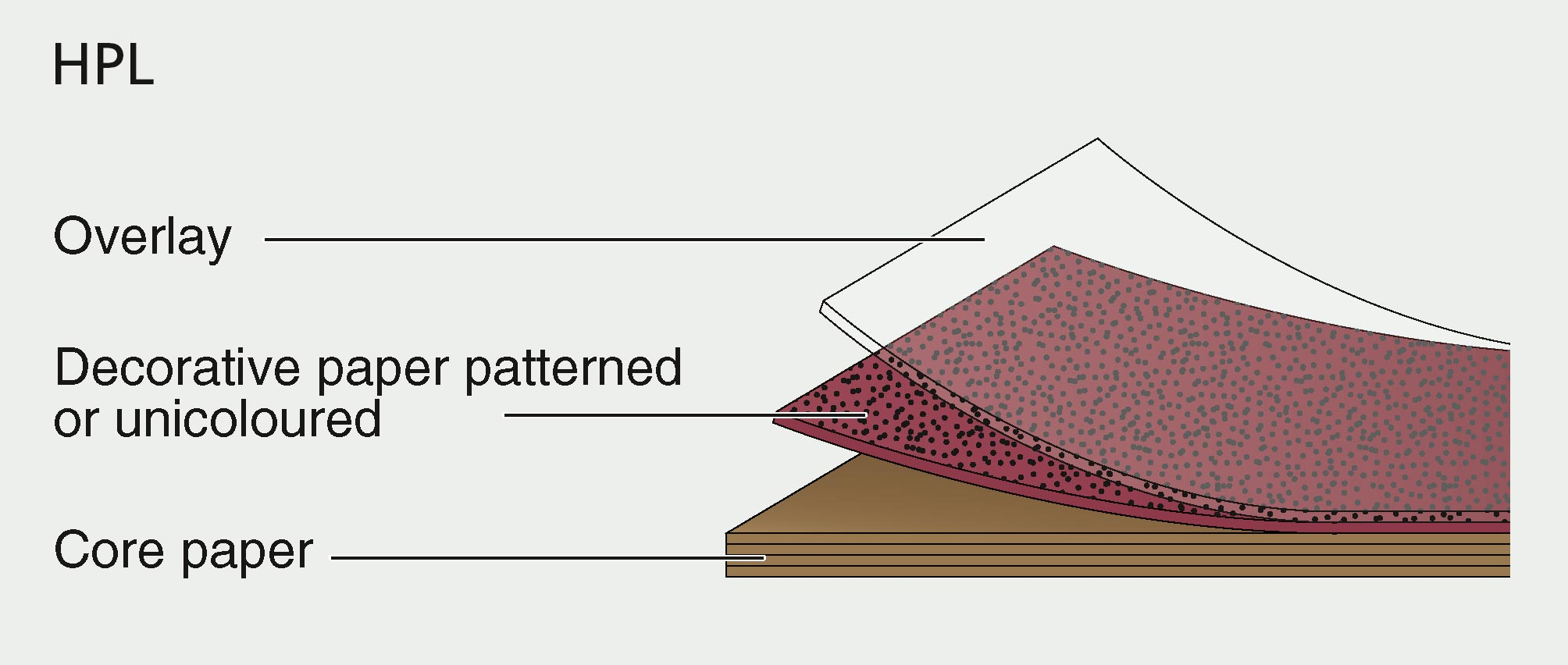 Composition of HPL